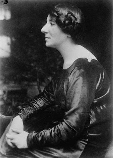 Wanda Landowska (1879 – 1959), Polish harpsichordist and pianist